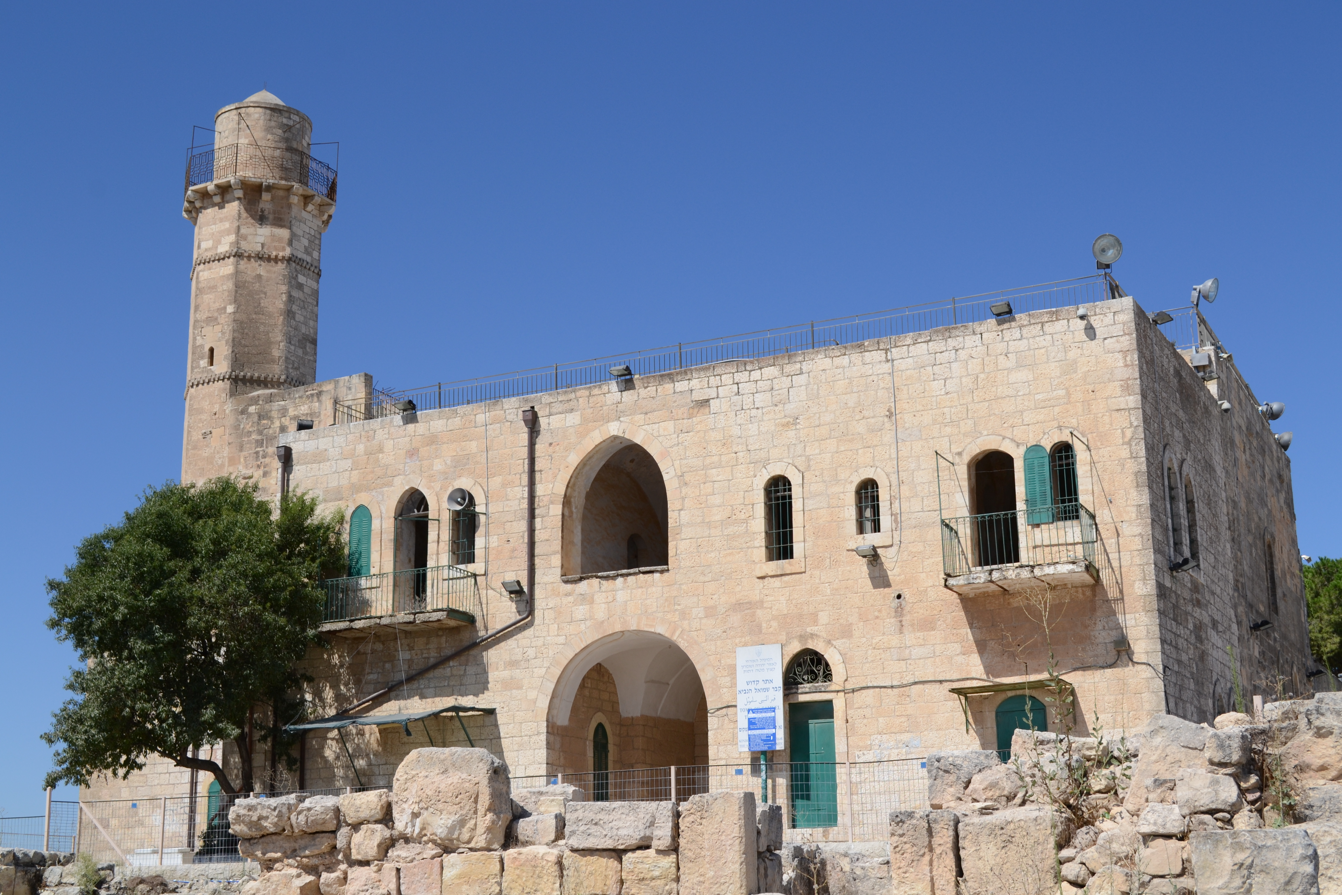 The Tomb Of Propet Samuel